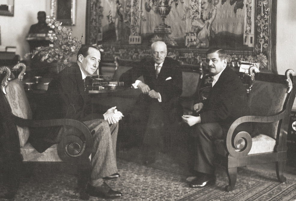 From left to right:Józef Beck Polish Minister of Foreign Affairs, Ignacy Mościcki, President of Poland, Pierre Laval French Prime Minister. An official visit of Laval in Warsaw 1935.